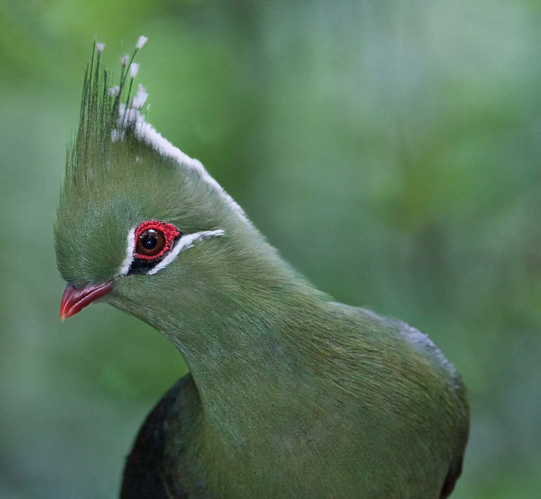 A Livingstone's Turaco in captivity. The fine bill and facial stripes are characteristic of the particular race.